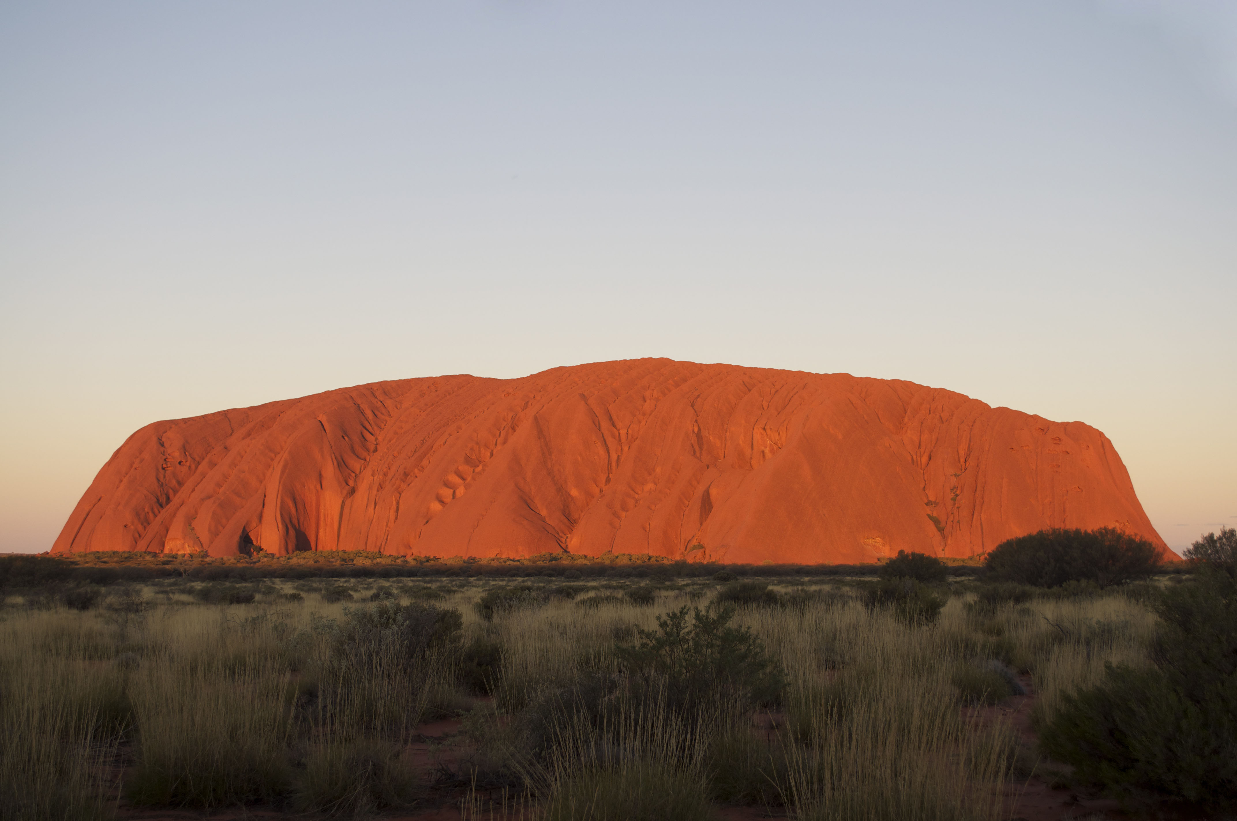 Photograph taken on a Nikon D5000 camera of Uluru (Northern Territory, Australia)